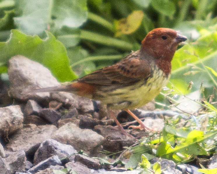 Chestnut Bunting (Emberiza rutila) photographed by Devon Pike on Eocheong Island, Korea in May 2012.jpg